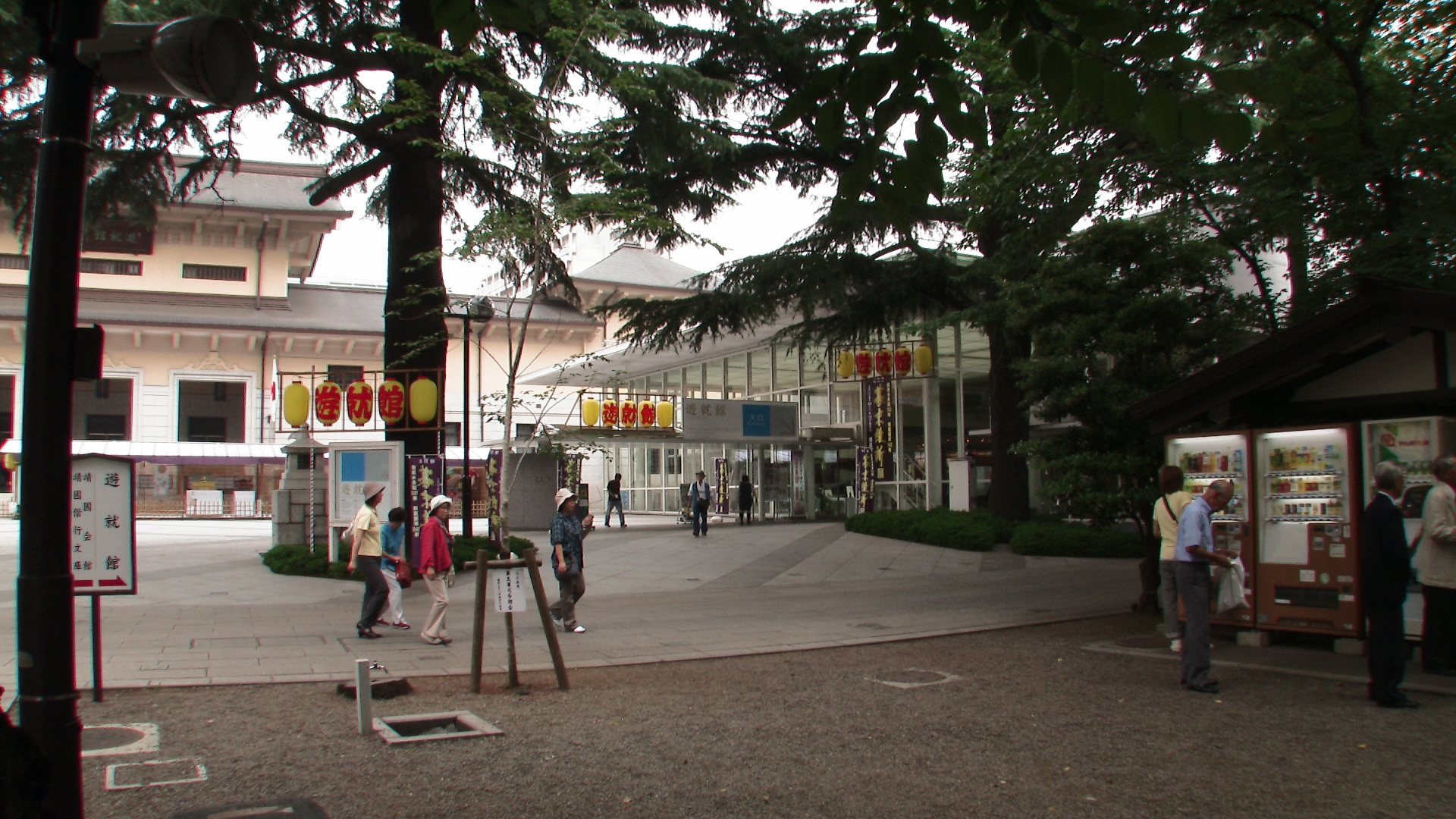 The entrance to the Yushukan Museum at Yasukuni Shrine